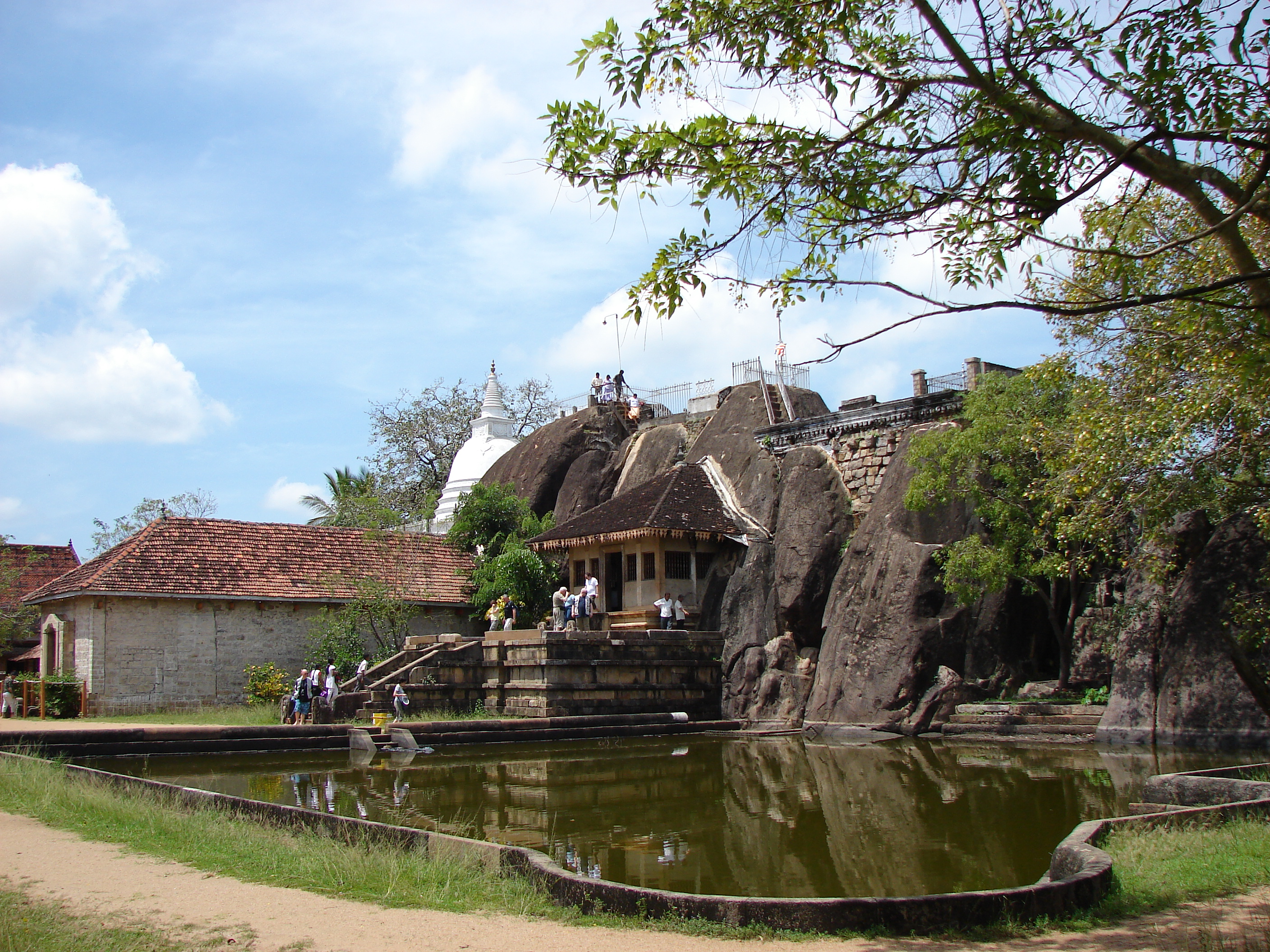 Isurumuniya Rock Temple, Anuradhapura, Sri Lanka